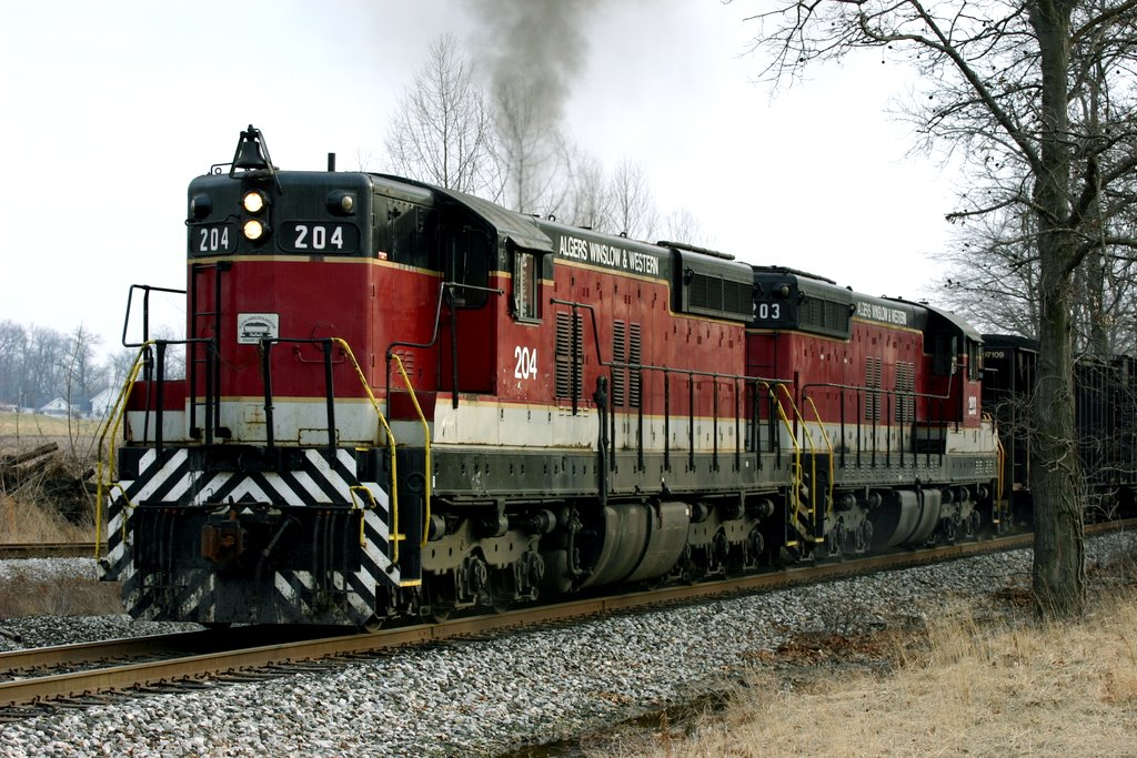 Like the 60's / the AWW was great when I caught it, no ditchlights, roaring non rebuilt SD9's, sanders on, lugging coal up the Ohio River Valley Algers, Winslow and Western Railway #204, EMD SD9